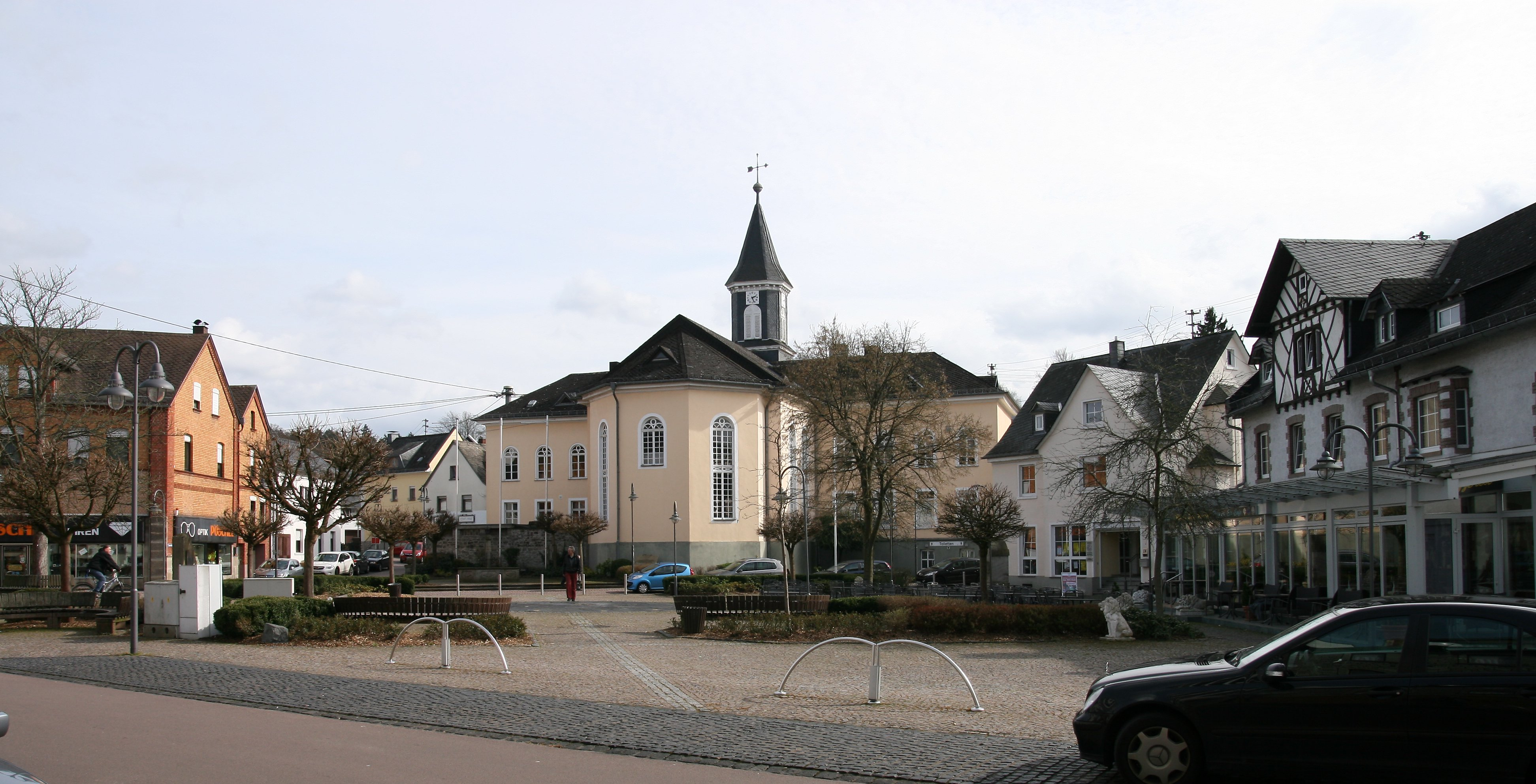 Market-place in Selters (Westerwald), Germany, showing the protestant church from approx. 1830 in the background.